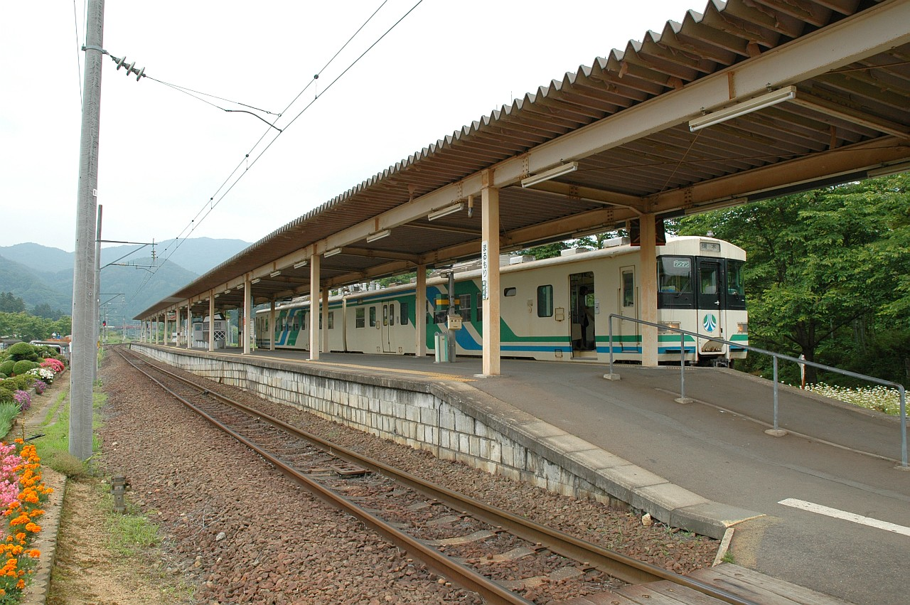 Photograph of Marumori Station, Abukuma Express Line, Miyagi, Japan.